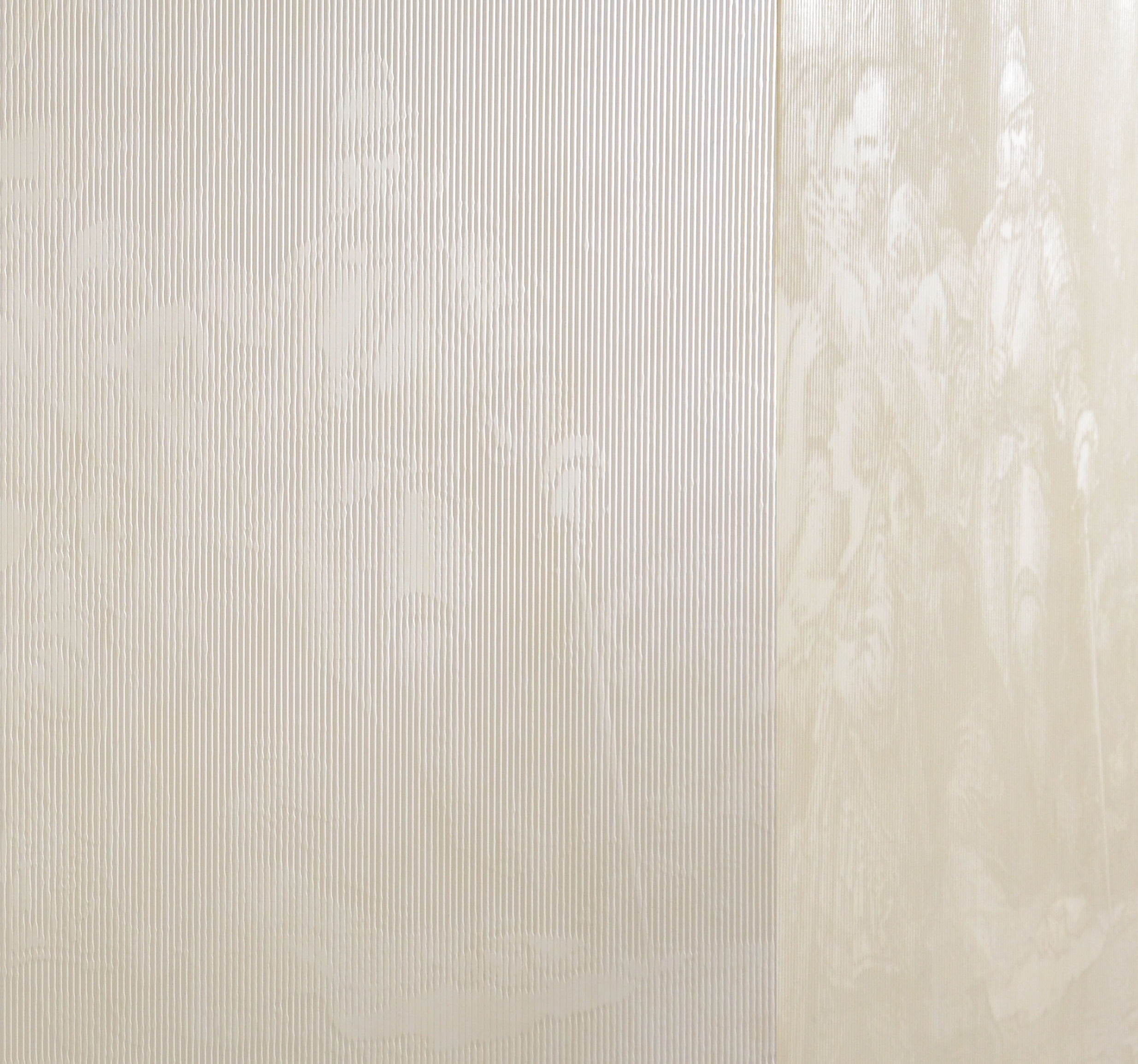 different views on cement-light-shadow-technique presenting a picture in subway station Kaulbachplatz, Nürnberg